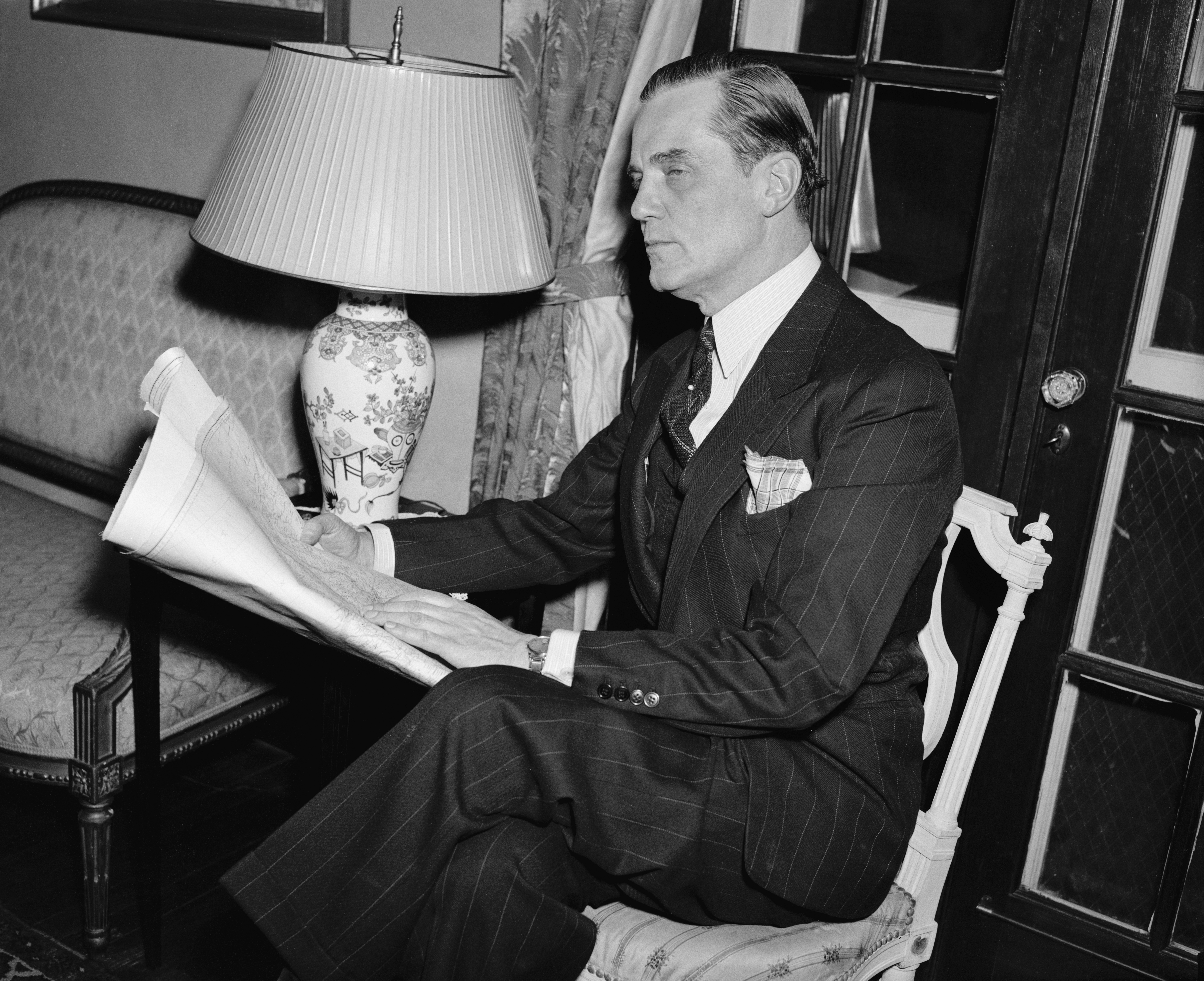 Hjalmar J. Procopé, Finland's ambassador to the United States, in Washington D.C. at the end of the Finnish Winter War in 1940. Prior to his career as ambassador, Procopé served as minister on several occasions: Minister of Trade and Industry (1920-1921, 1924) and Minister of Foreign Affairs (1924-1925, 1927-1931).